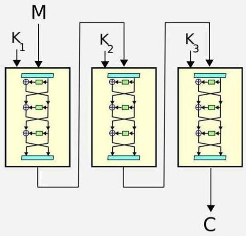 Üçlü DES